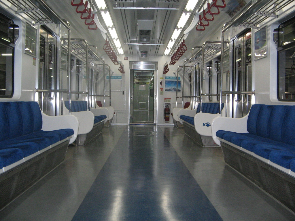 Inside the subway of Seoul